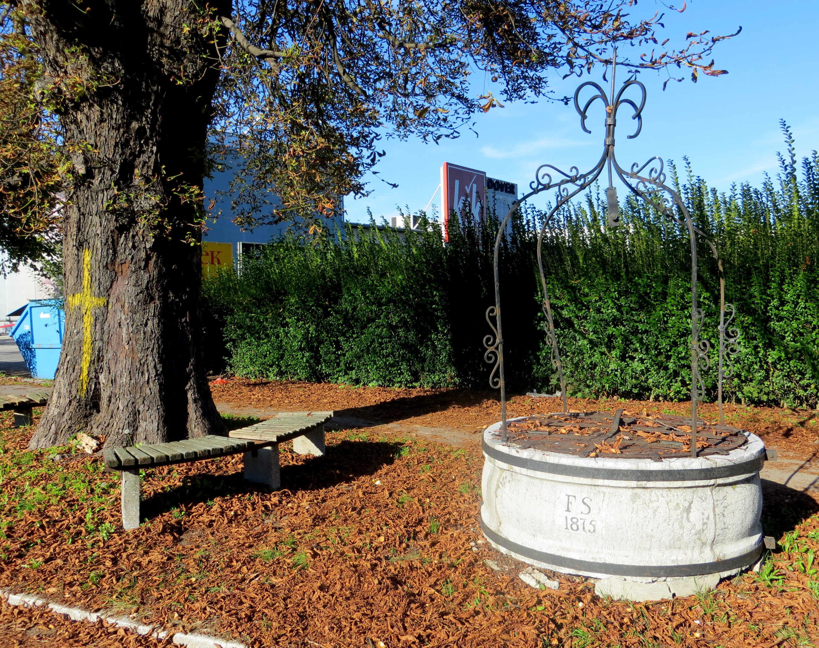 Chestnut tree and well (1875) from the former Blind John Inn (Slovene: pri slepem Janezu) in Zapuže, Ljubljana, Slovenia